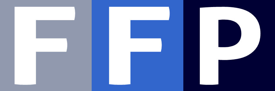 FFP adopted the "three squares" logo in 2011 to replace the "globe" logo it had held for many years.